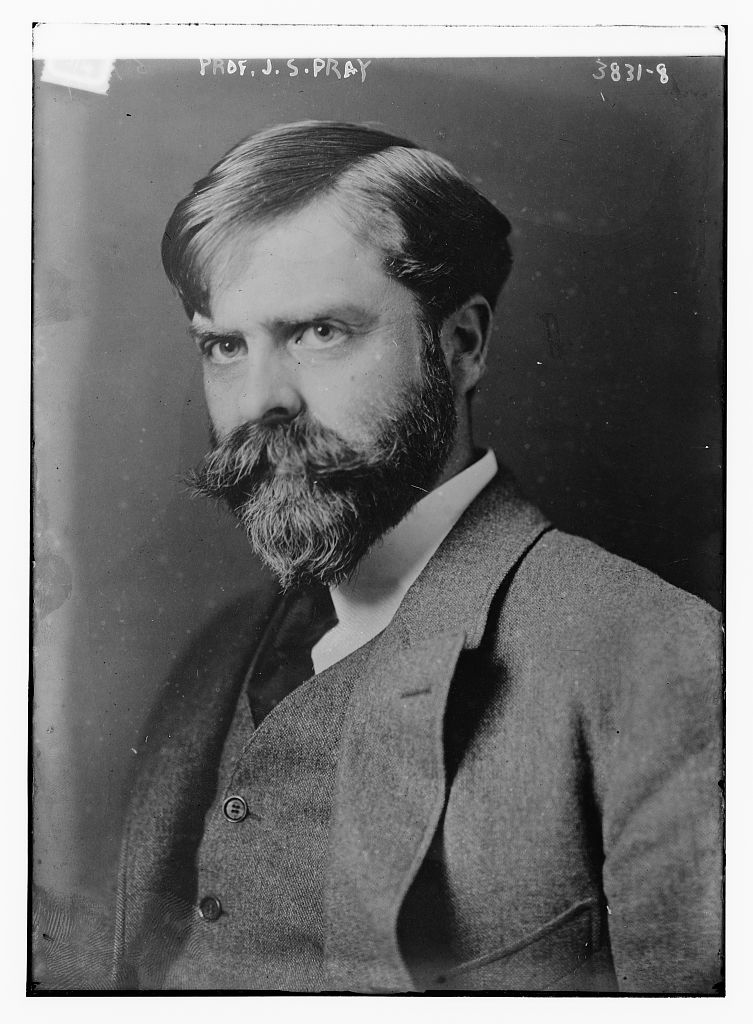 James Sturgis Pray (1871-1929) circa 1915